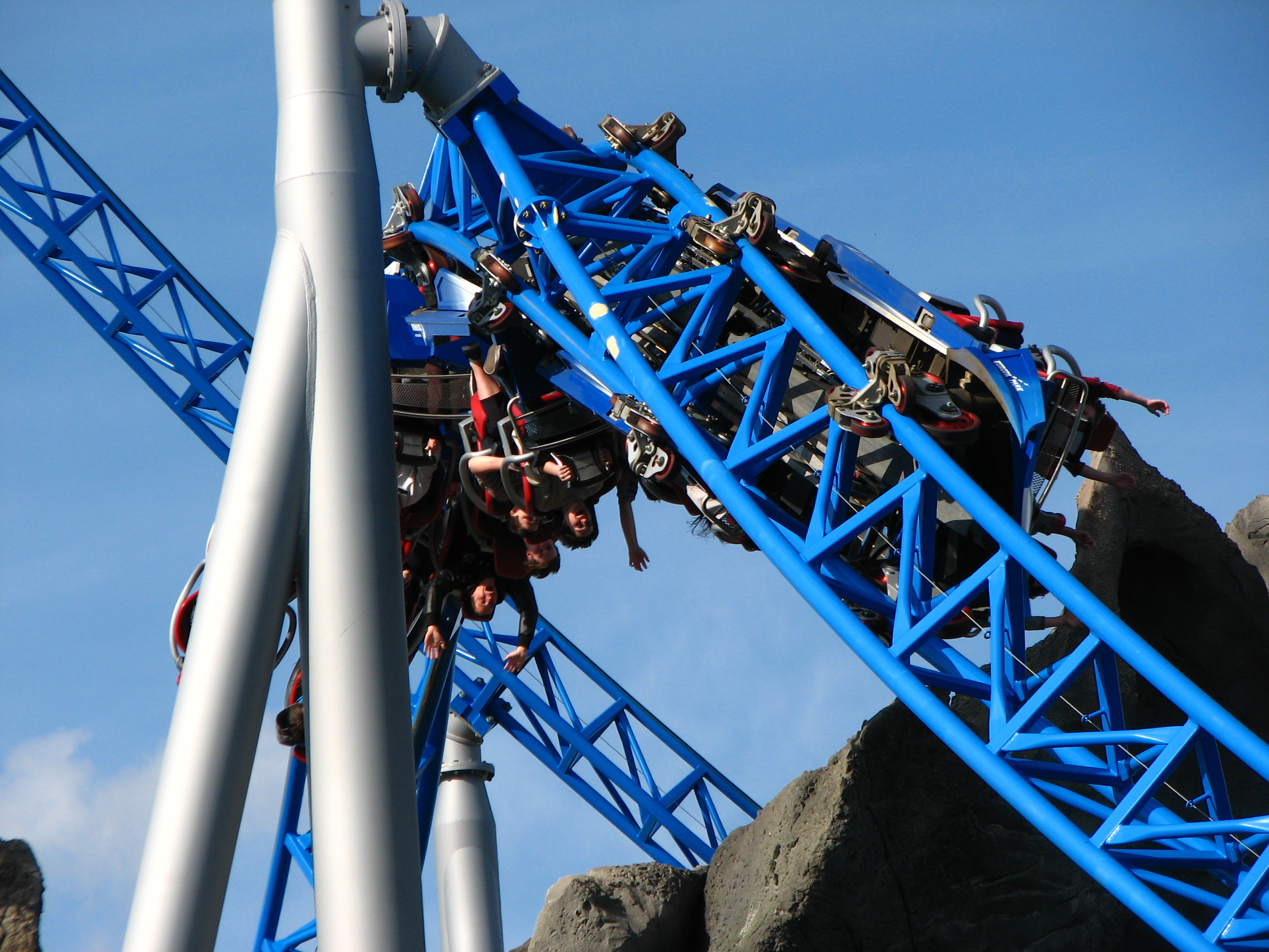 Blue Fire Megacoaster, Europa-Park, Rust, Baden-Württemberg, Germany.